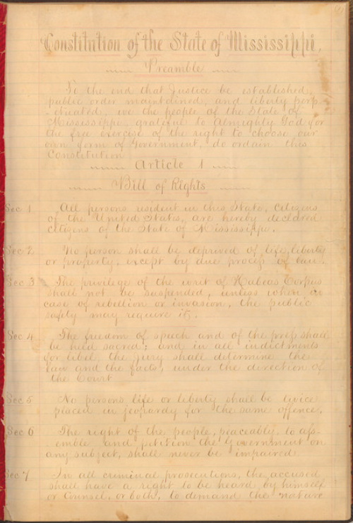 Constitution of Mississippi (1868), page 1.